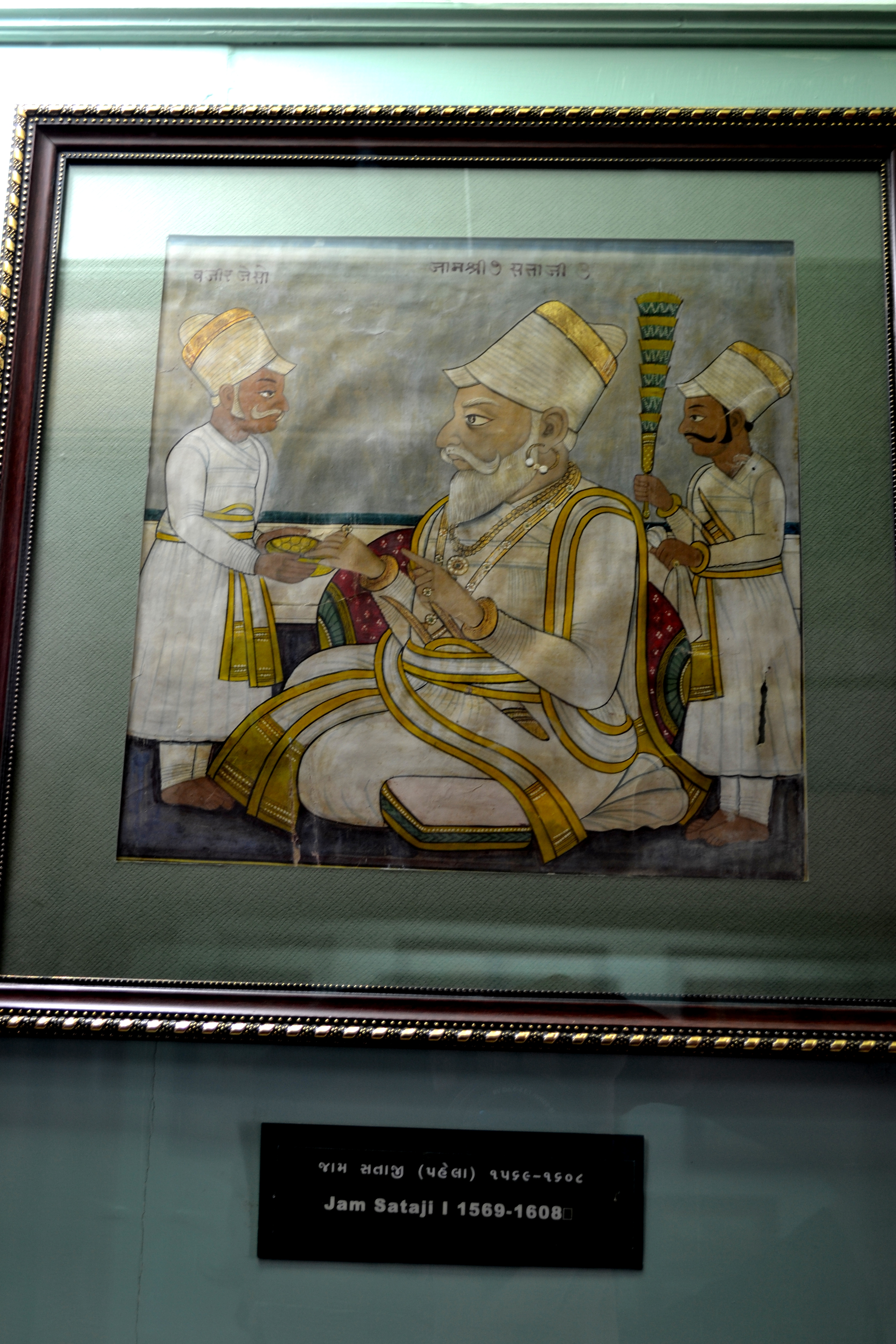 An image of Shri Jam Sataji First 1569 - 1608